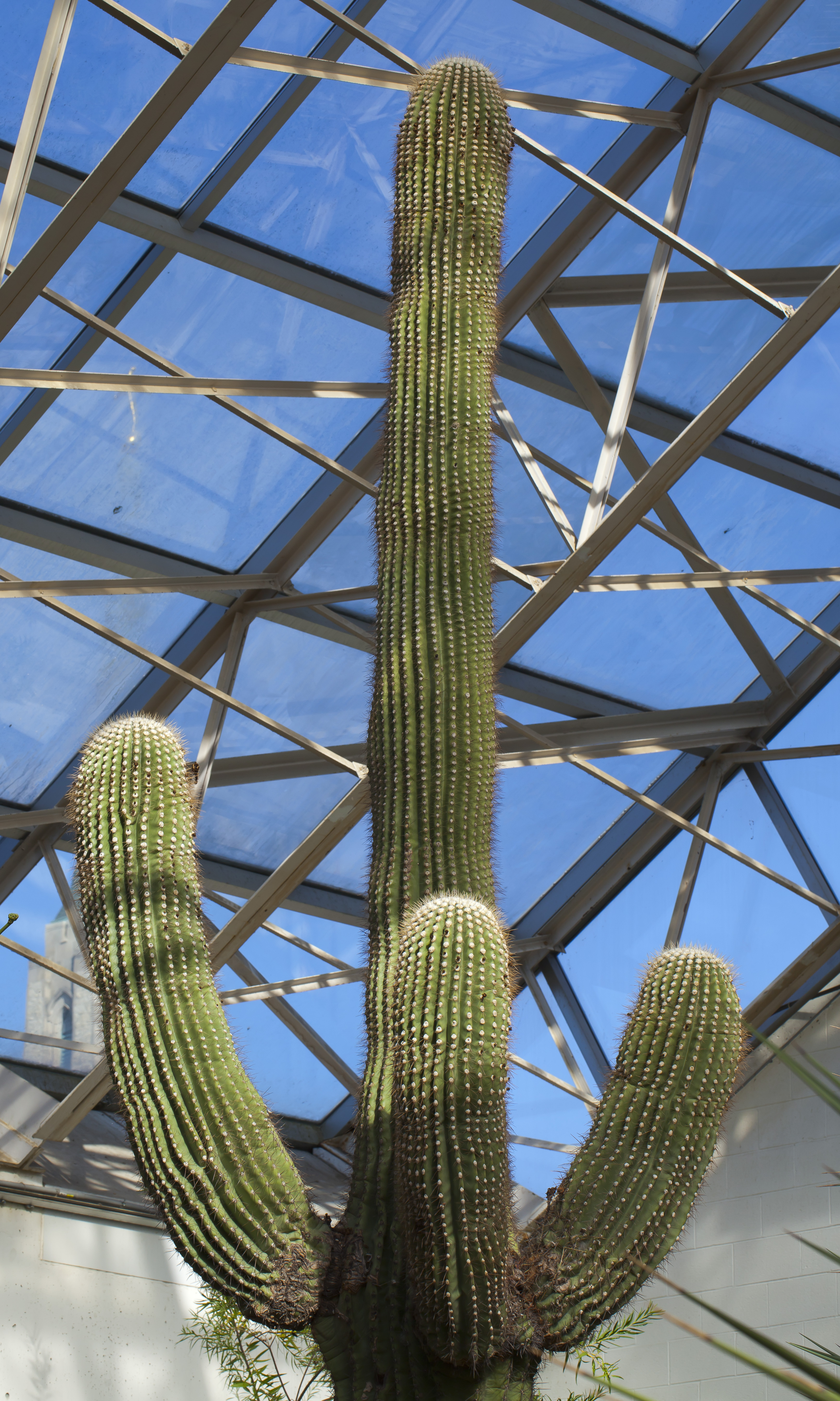 Saguaro (Carnegiea gigantea), Botanic Conservatory, Fort Wayne, USA